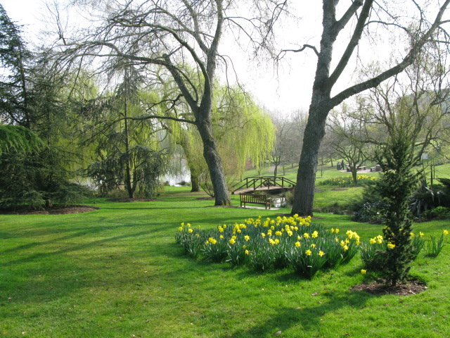 Grounds at the University of Surrey The bridge crosses a small stream between two lakes, the upper one is called Terry's Pond.